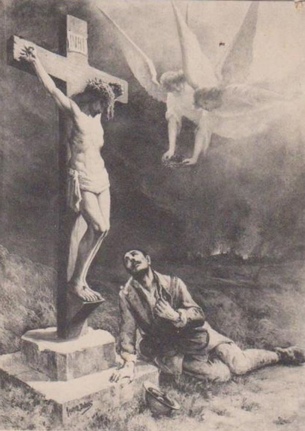 "Les deux sacrifices" by Maurice Dubois (1914-1918)